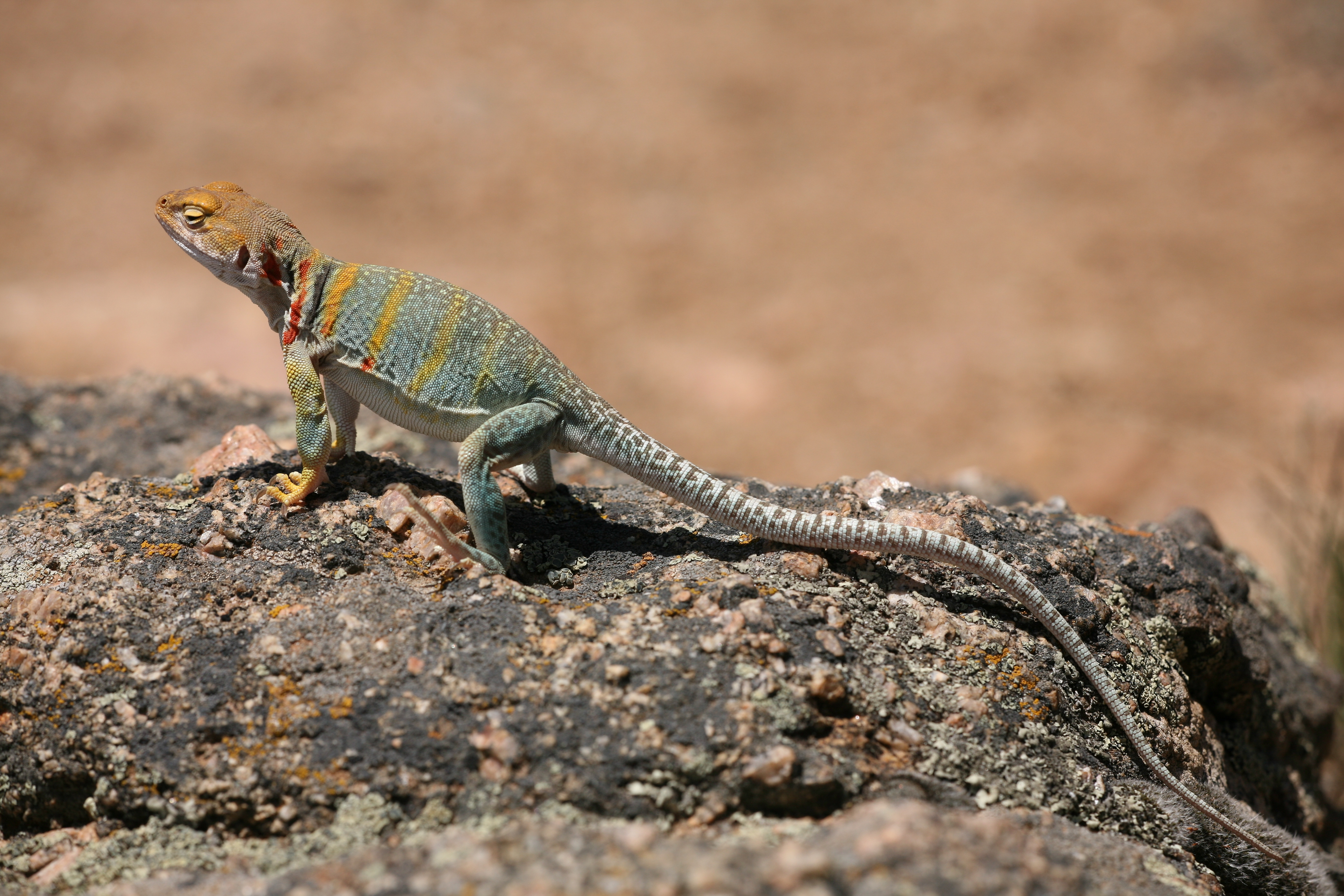 Collared Lizard (Crotaphytus collaris) in Black Canyon of the Gunnison National Park